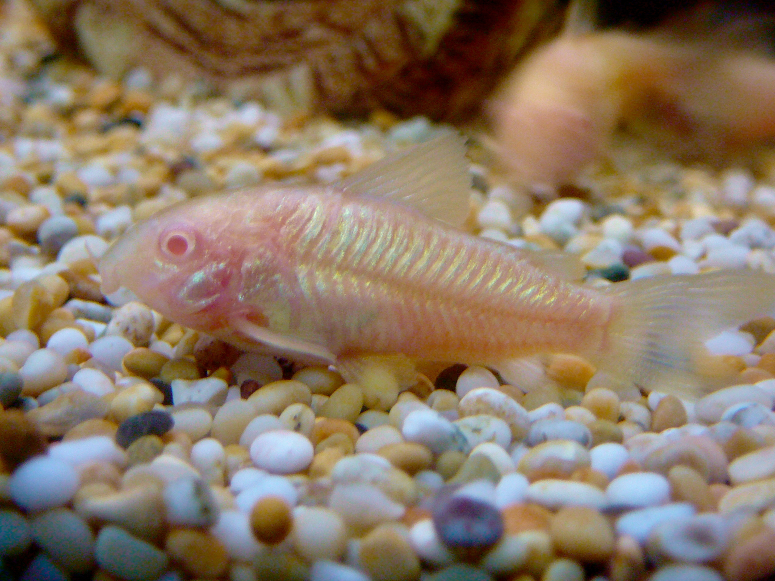 One of my albino cories